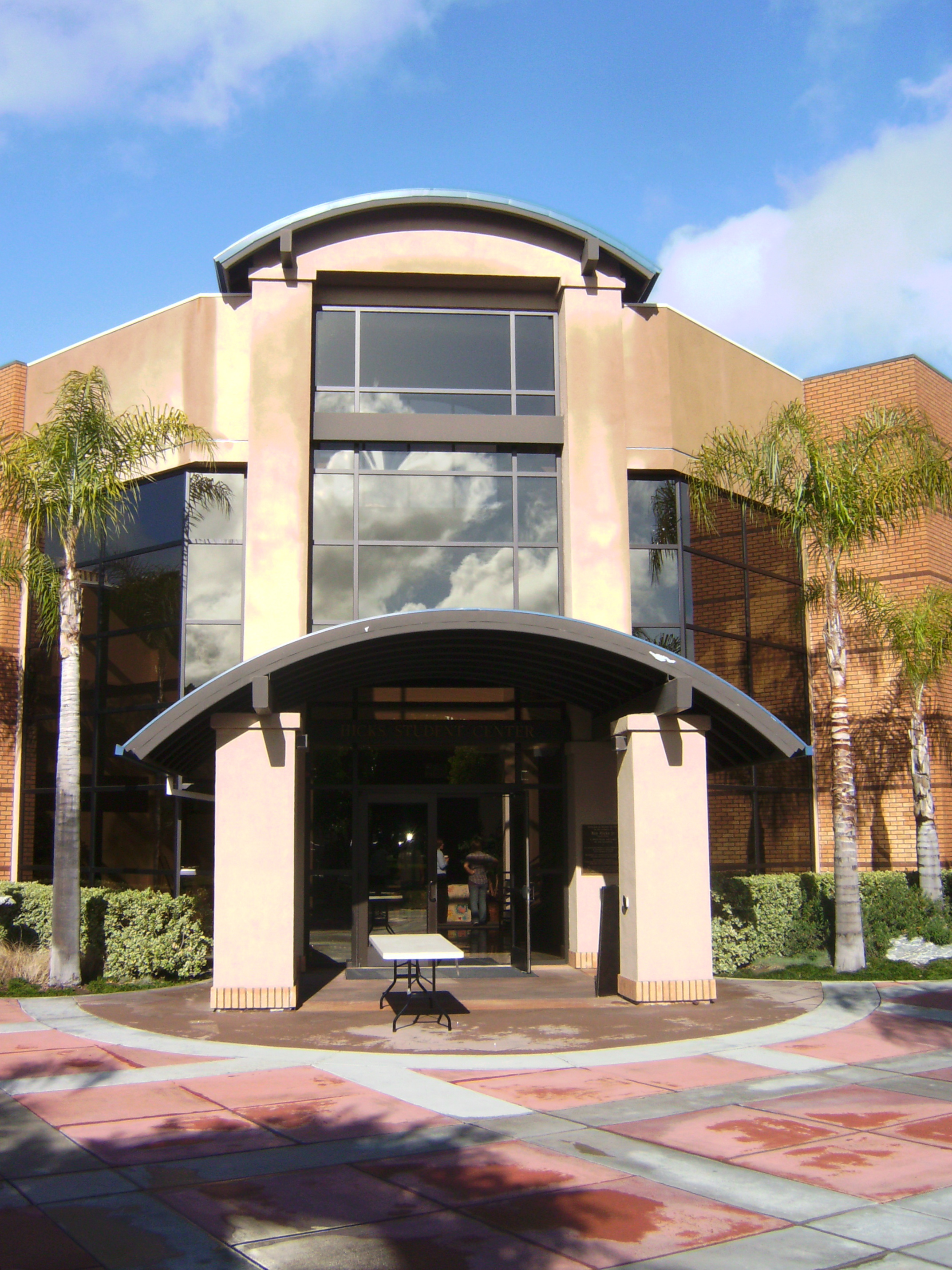 The entrance to the Hicks Center on LIFE Pacific College's campus.